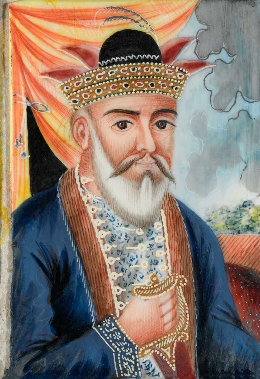 01. Amir Dost Mohammed Khan Dost Mohammed Khan (1793-1863), a member of the Barakzai dynasty, was Amir of Afghanistan from 1826 to 1839. His country’s position between the Russian Empire and India meant that the British East India Company was anxious to ensure that a pro-British Amir was on the throne at Kabul. Fearful of a Russian invasion of India via Afghanistan, in 1837 the British sent an envoy to Kabul to gain his support. Dost Mohammed was in favour of an alliance, but when the British refused to help him regain Peshawar, which the Sikhs had seized in 1834, he prepared to talk to the Russians, who sent an envoy to Kabul. This led Lord Auckland, the Governor-General of India, to conclude that Dost Mohammed was anti-British. The decision was taken to replace him as Amir with a former ruler, Shah Shujah. In March 1839 a British force advanced through the Bolan Pass, and on 26 April reached Kandahar. Shah Shujah was proclaimed ruler, and entered Kabul on 7 August, while Dost Mohammed sought refuge in the Hindu Kush. The British eventually caught him on 4 November 1840. He remained in captivity during their occupation and the disastrous retreat from Kabul in January 1842. Following the British recapture of Kabul in the autumn of 1842, Dost Mohammed was restored to the throne, the unpopular Shah Shujah having been murdered. The Company decided that occupying the country would cost too much in men and money and withdrew. Dost Mohammed reigned until his death in 1863. With some exceptions, his relationship with British India was friendly, and from 1855 regulated by treaty. (NAM 1964-08-44)